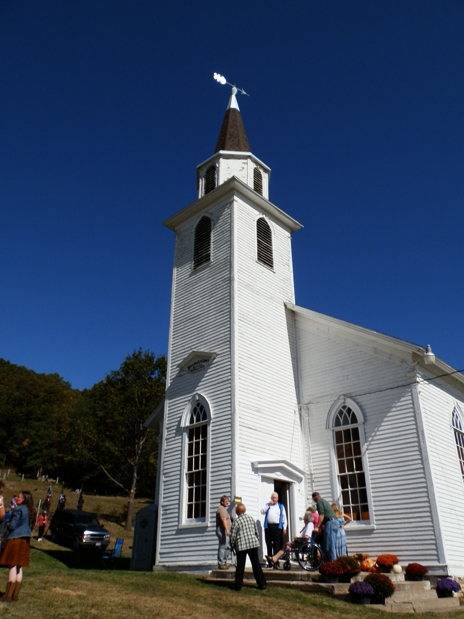 Pulaski Presbyterian Church Complex, 6757 County Road P Pulaski